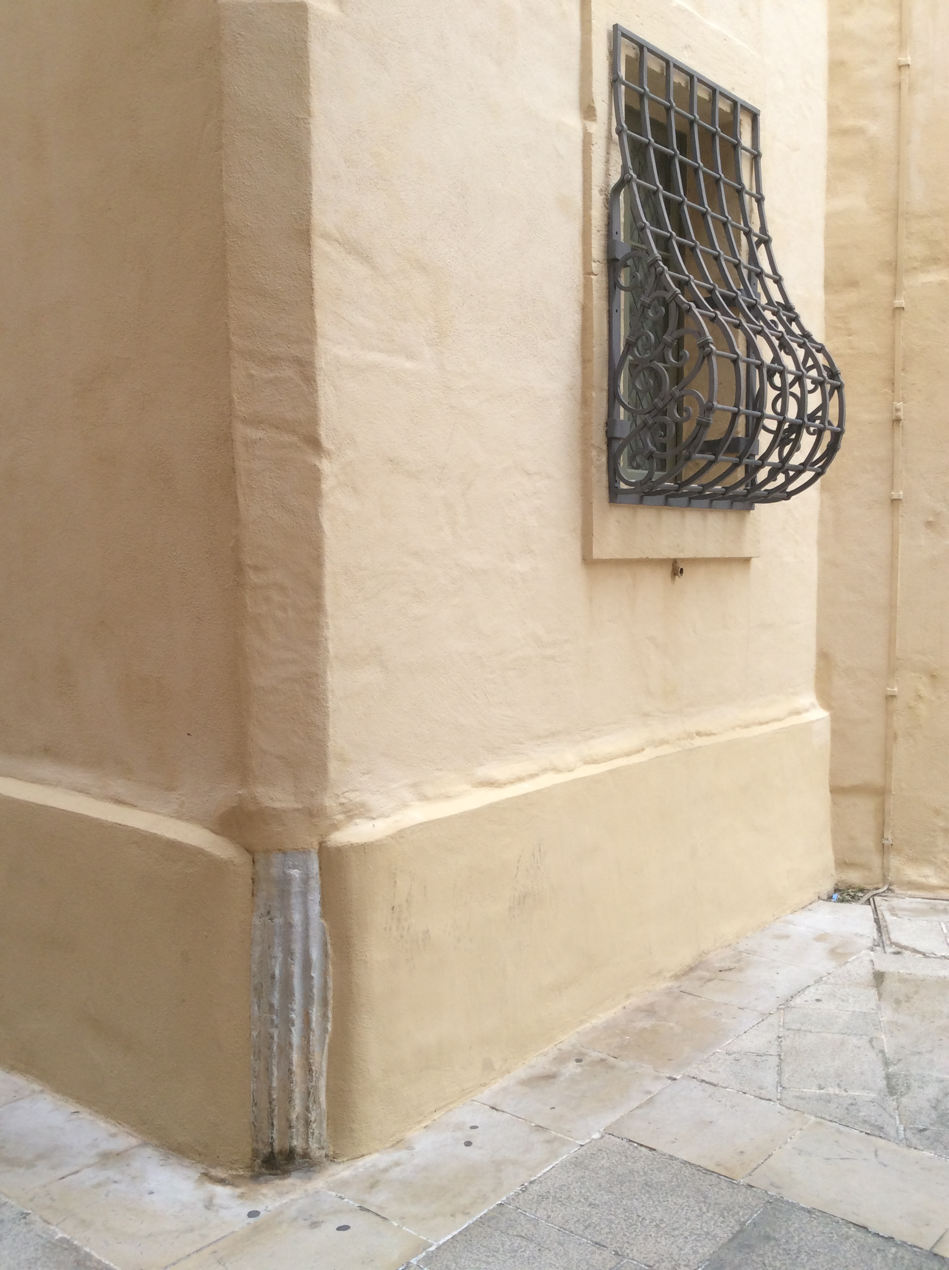 Palazzo Falzon and Garden This media is about Maltese cultural property with inventory number 01193.